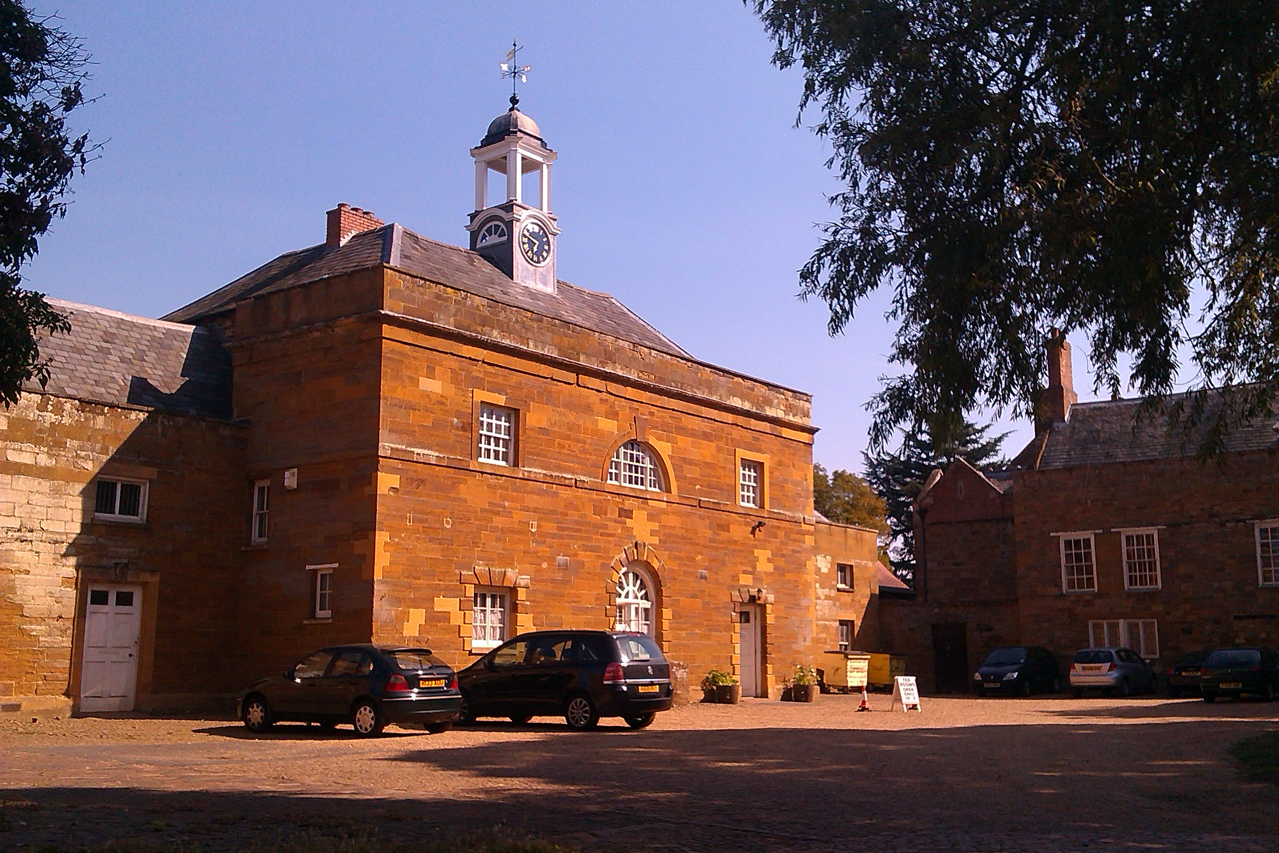 Stable Block, Delapre Abbey